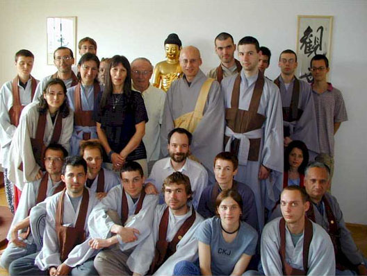 Opening ceremony of Prague Zen Centre